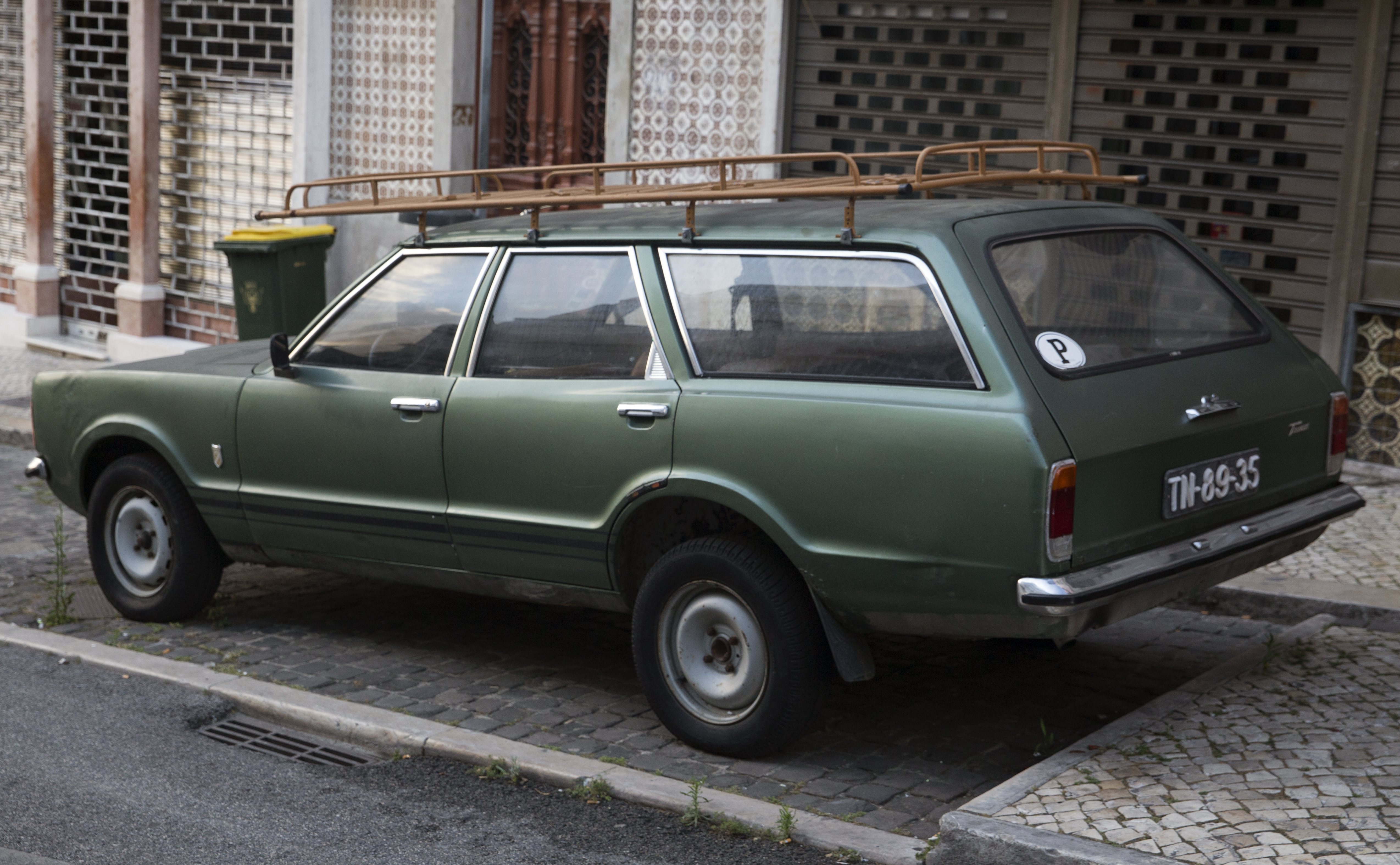 A 1970s Ford Taunus Ghia Turnier seen in Lisbon, Portugal. Were these really available in Ghia trim?